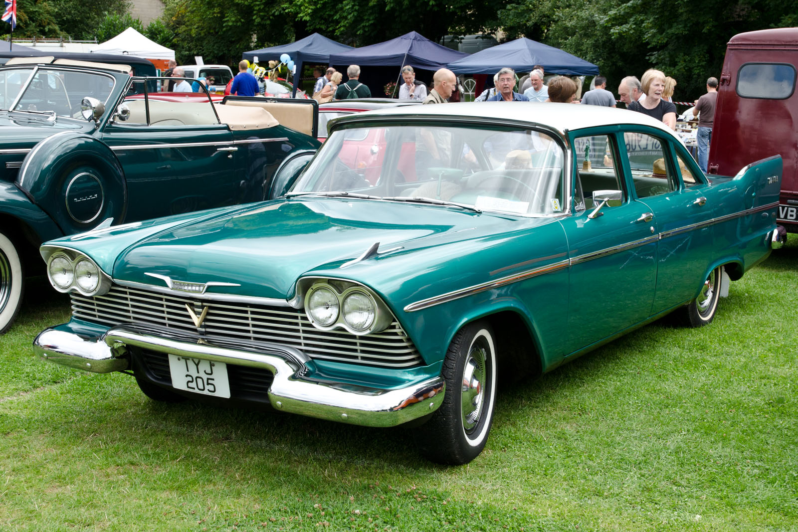 Hebden Bridge Vintage Weekend 04/08/2013